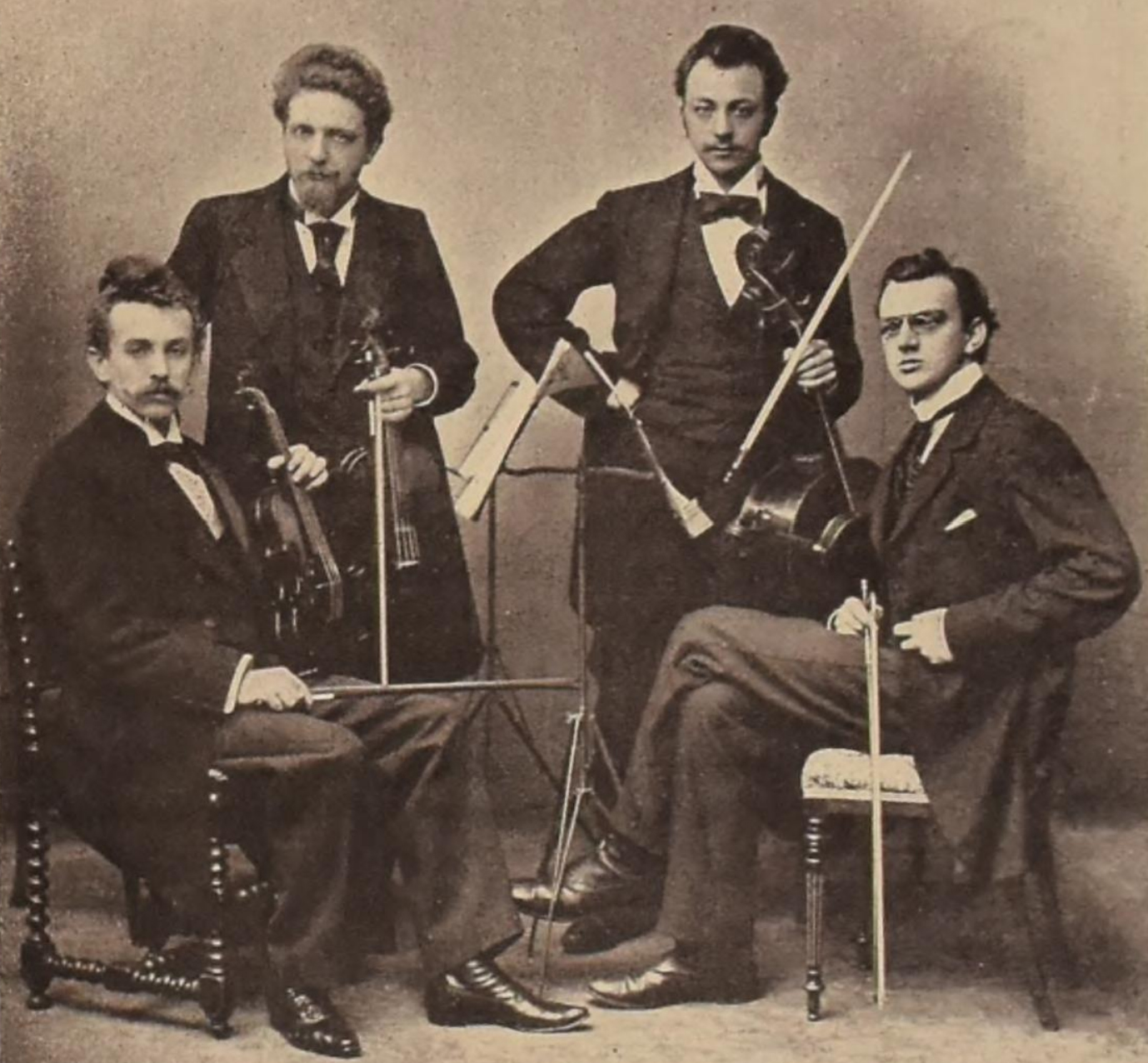 Brussels string quartet: Franz Schörg (1st violin), Paul Miry (viola), Jacques Gaillard (cello), Hans Daucher (2nd violin)